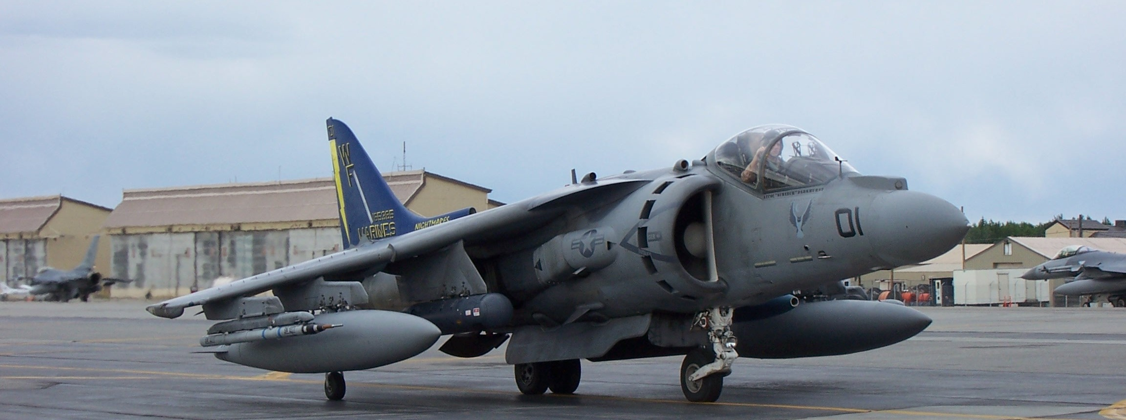 The squadron commander´s McDonnell Douglas AV-8B Harrier II aircraft of U.S. Marine Corps attack squadron VMA-513 Flying Nightmares during the "Red Flag Alaska" exercise in June 2007.